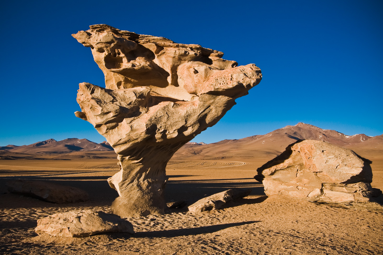 The Arbol de Piedra (Stone Tree) — a volcanic rock formation in the Desierto Siloli in Bolivia. The rock is unique because it resembles a tree. The Desierto Siloli is considered to be part of the Atacama Desert in neighboring Chile.